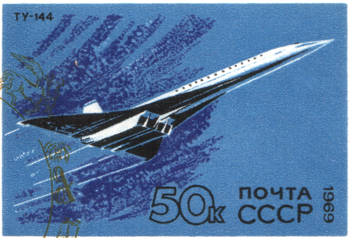 USSR stamp from sheetː Supersonic Transport Aircraft Tupolev Tu-144, 1968. Signs of the Zodiac. Seriesː Develoment of Soviet Civil Aviation